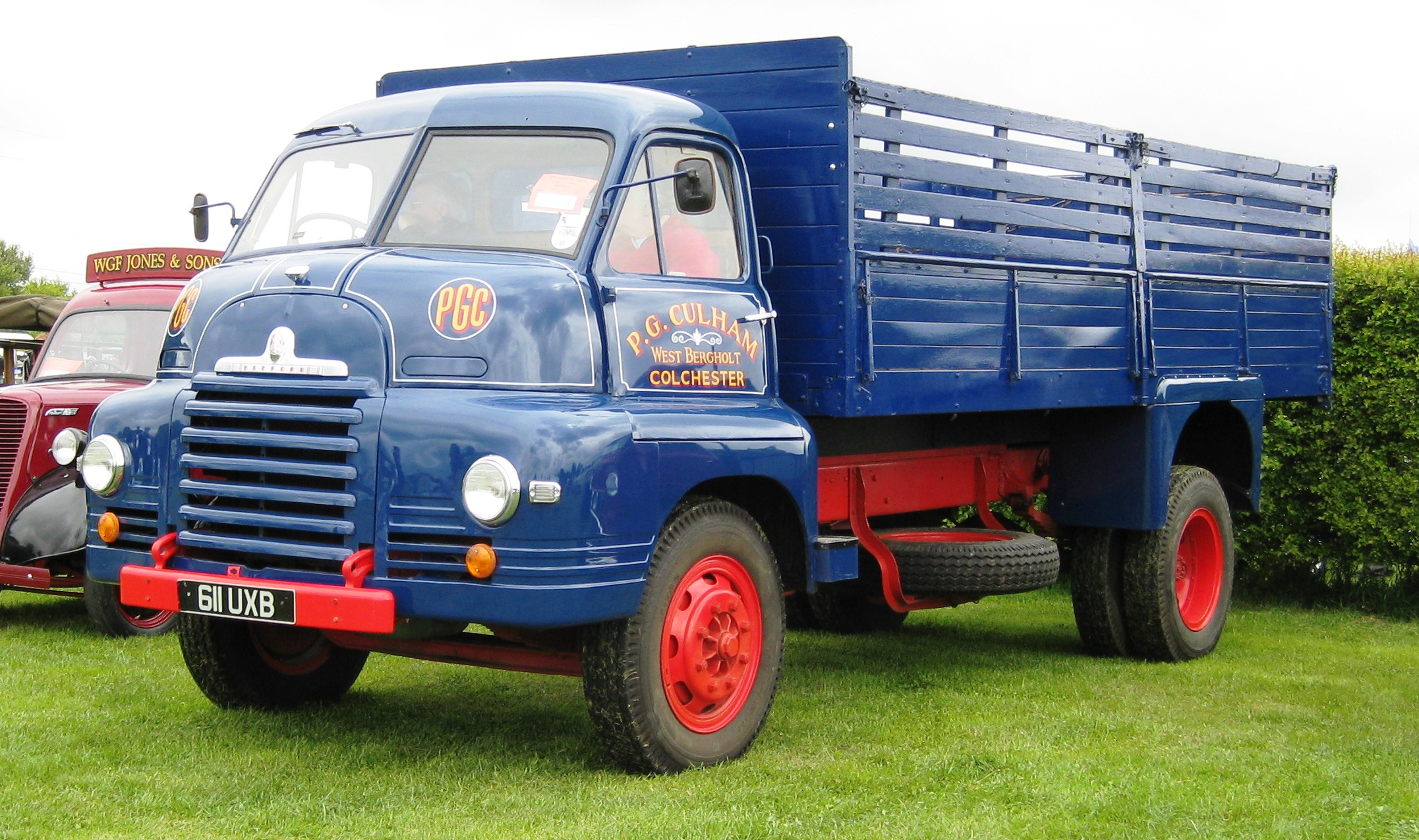 Bedford S Type truck at Battlesbridge Classic Car Show